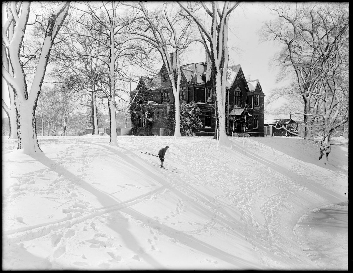 Accession No.: 08_01_000548 Title: Children's Museum, Jamaica Pond, snow view Format: photograph Source: 6.5x8.5 glass negative Date: Feb. 21, 1932 Photographer: Abdalian, Leon H.